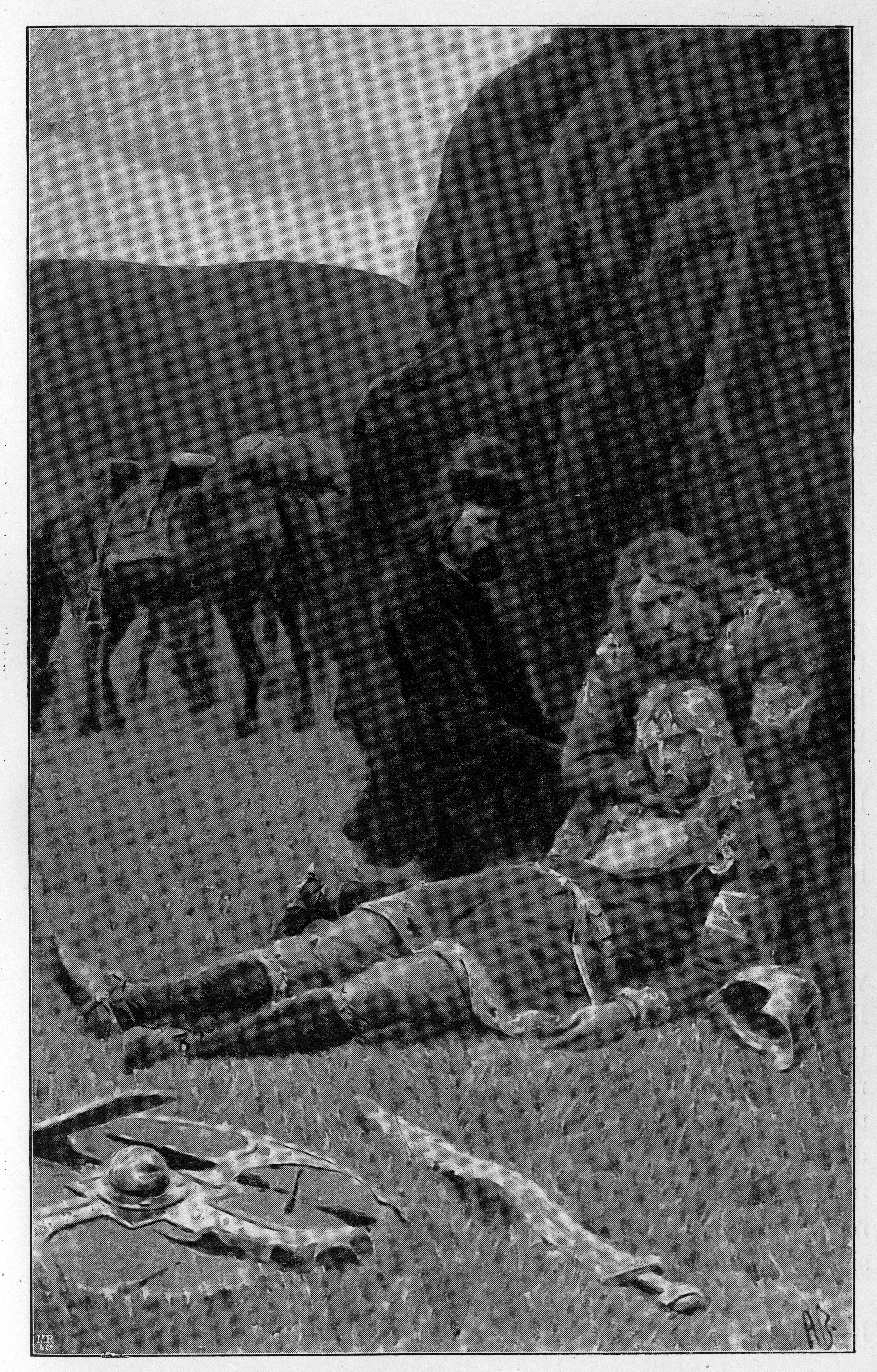 From the Laxdæla Saga: "Then Bolli drew Footbiter, and now turned upon Kjartan. Then Kjartan said to Bolli, 'Surely thou art minded now, my kinsman, to do a dastard's deed; but oh, my kinsman, I am much more fain to take my death from you than to cause the same to you myself.' Then Kjartan flung away his weapons and would defend himself no longer; yet he was but slightly wounded, though very tired with fighting. Bolli gave no answer to Kjartan's words, but all the same he dealt him his death-wound. And straightway Bolli sat down under the shoulders of him, and Kjartan breathed his last in the lap of Bolli." Illustration from "Vore fædres liv" : karakterer og skildringer fra sagatiden / samlet og udggivet af Nordahl Rolfsen ; oversættelsen ved Gerhard Gran., Kristiania: Stenersen, 1898. English description translated from Icelandic by Muriel A C Press in 1880.